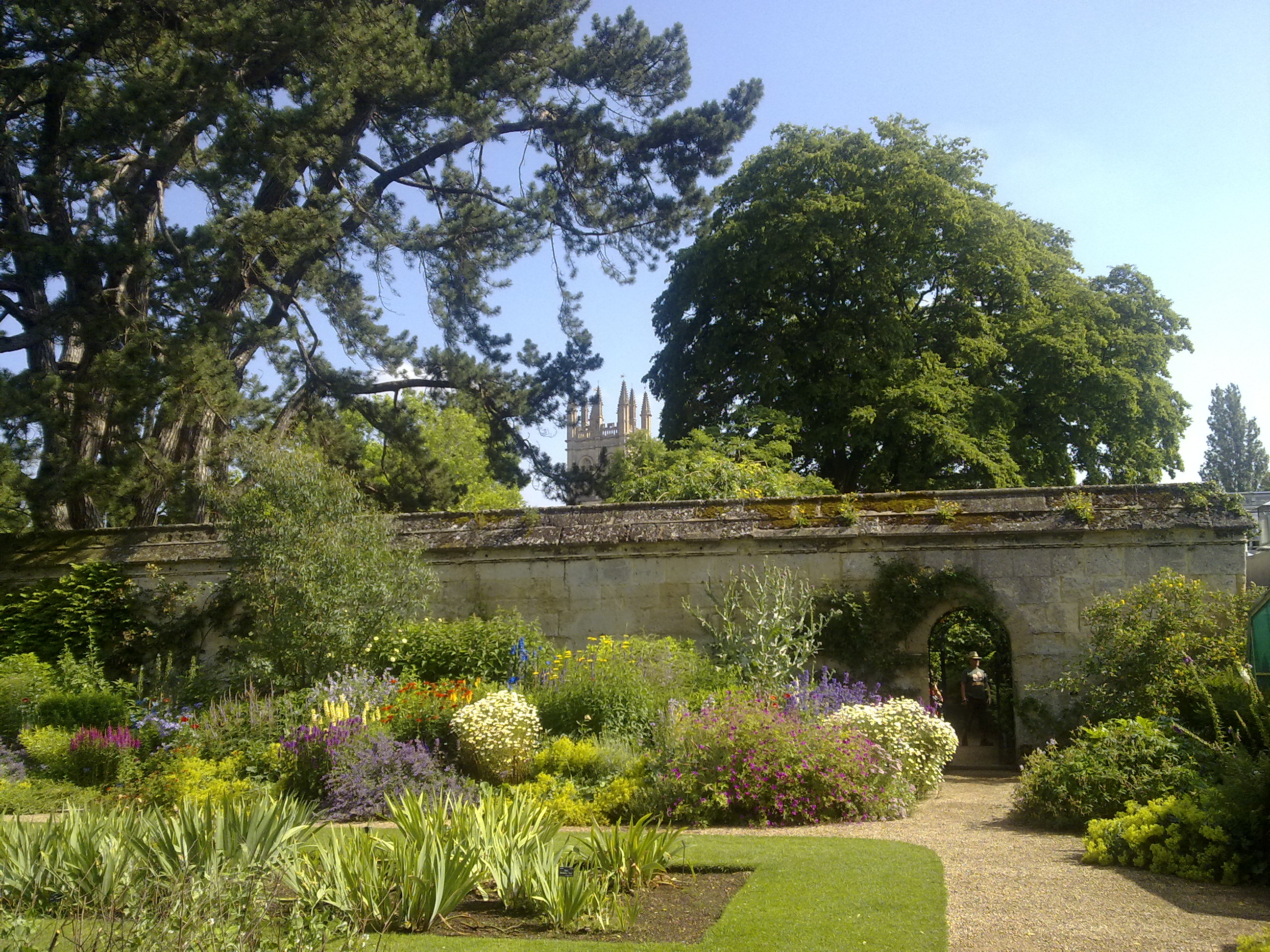 The Magdalen Great Tower, obscured by the vegetation in the heart of the University of Oxford Botanic Garden.